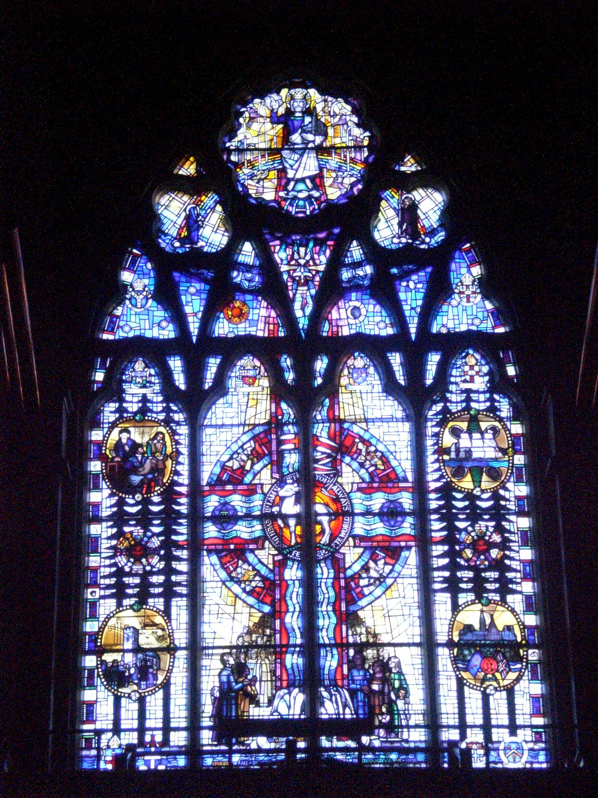 Photo of the rear window of Christ Church Anglican Cathedral, Ottawa